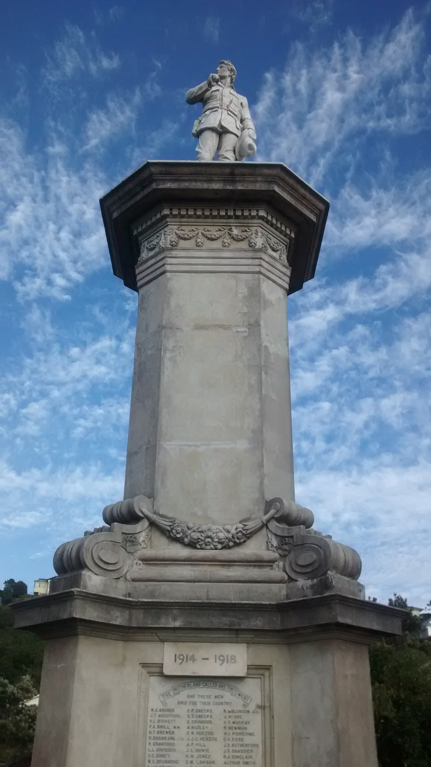 Brooklyn War Memorial in Wellington, New Zealand, which commemorates soldiers who died during World War One.